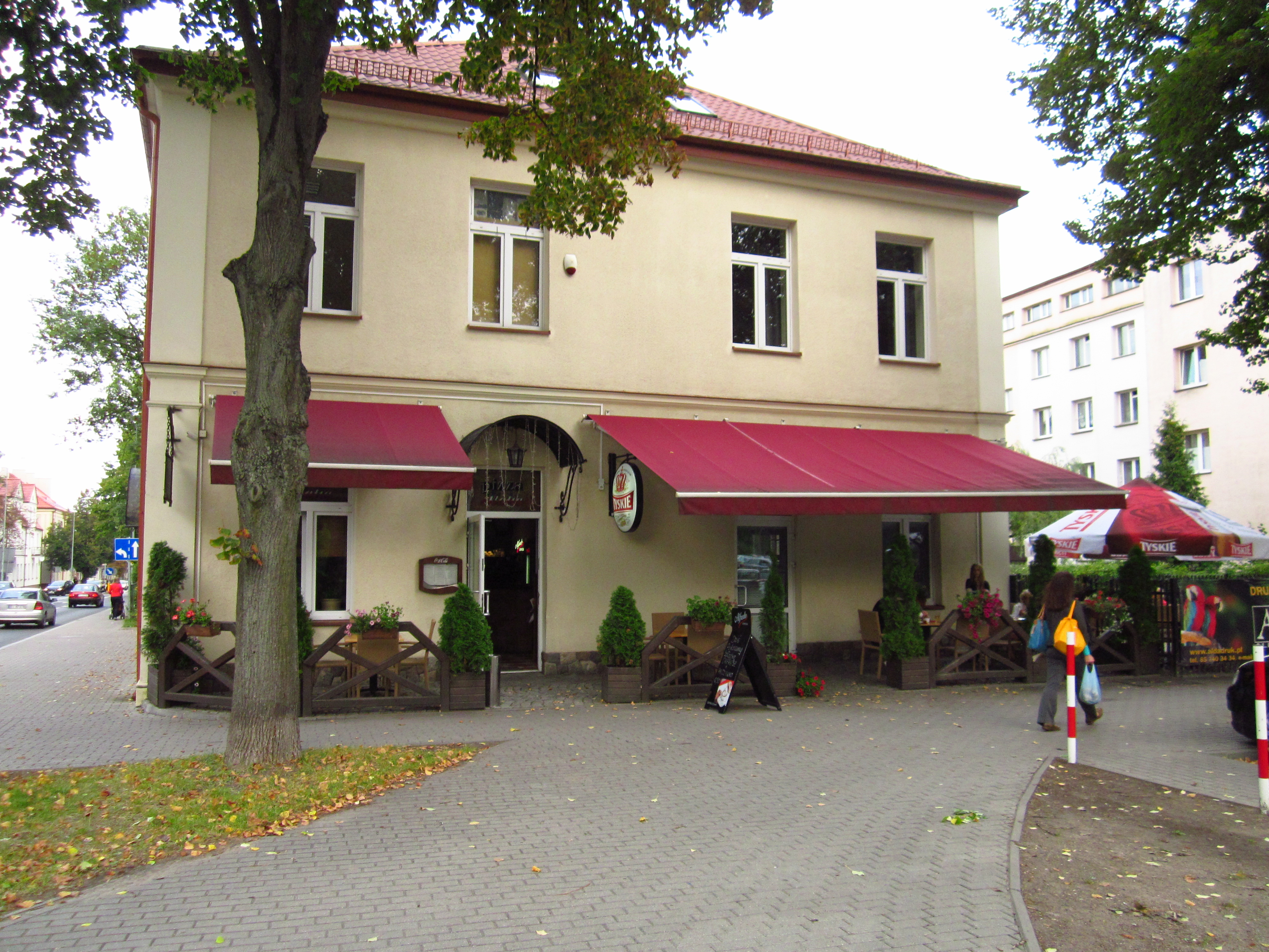 Restaurant "Pizza Italia" in Białystok, 21 Świętojańska Street.